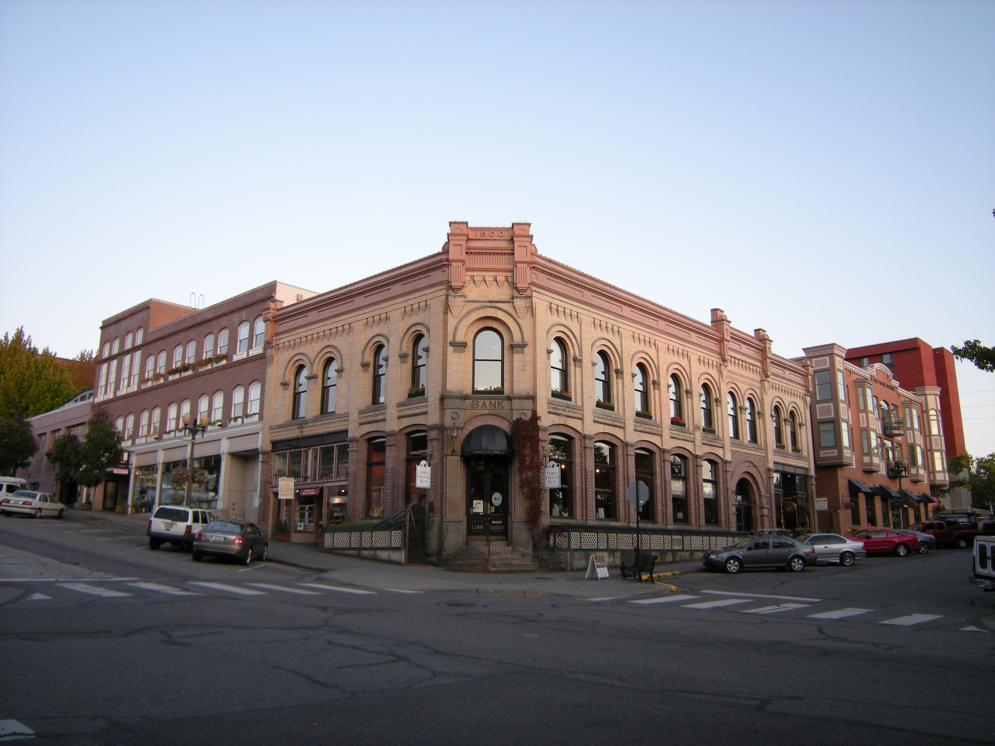 Former bank building (Nelson Block), historic Fairhaven district, Bellingham, Washington.